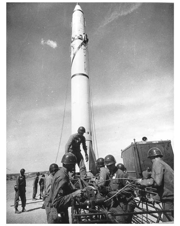 Redstone rocket photograph without description.